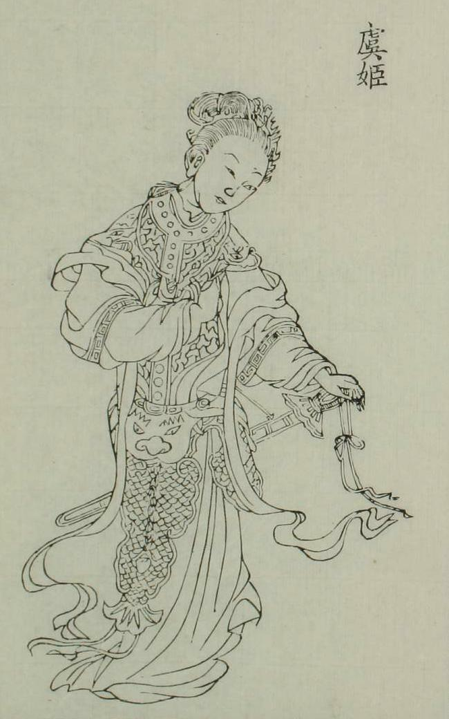 This is a image about the Consort Yu.